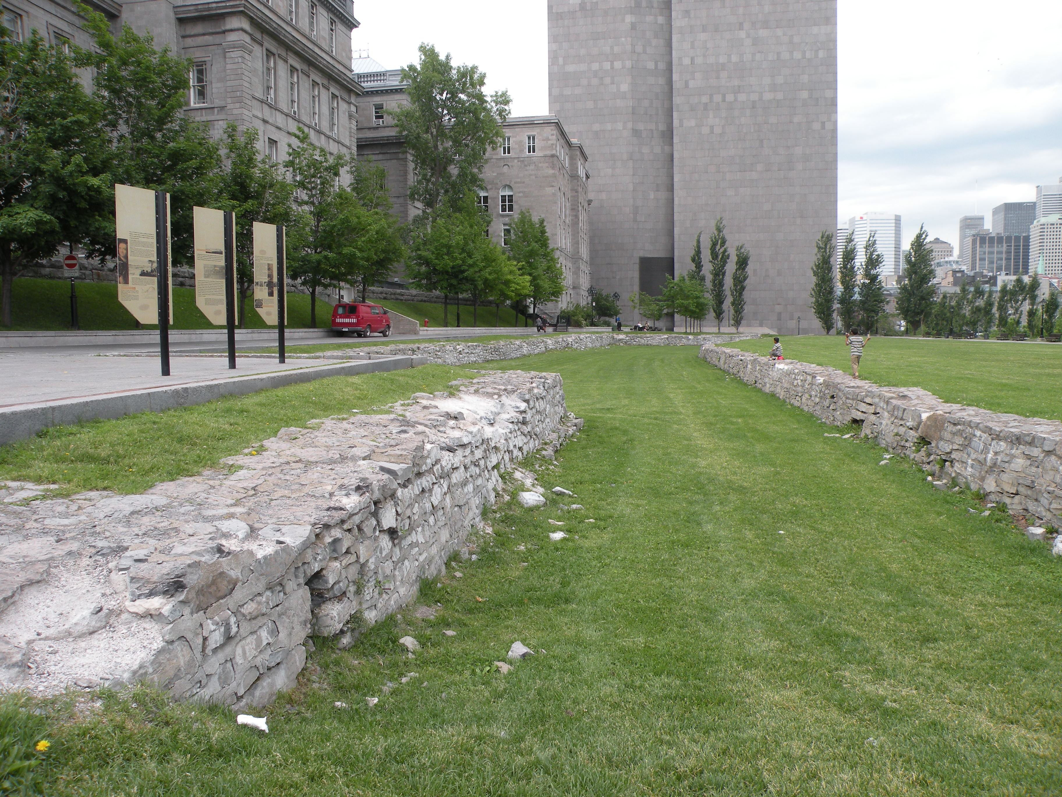 The ruins of the Montreal wall.